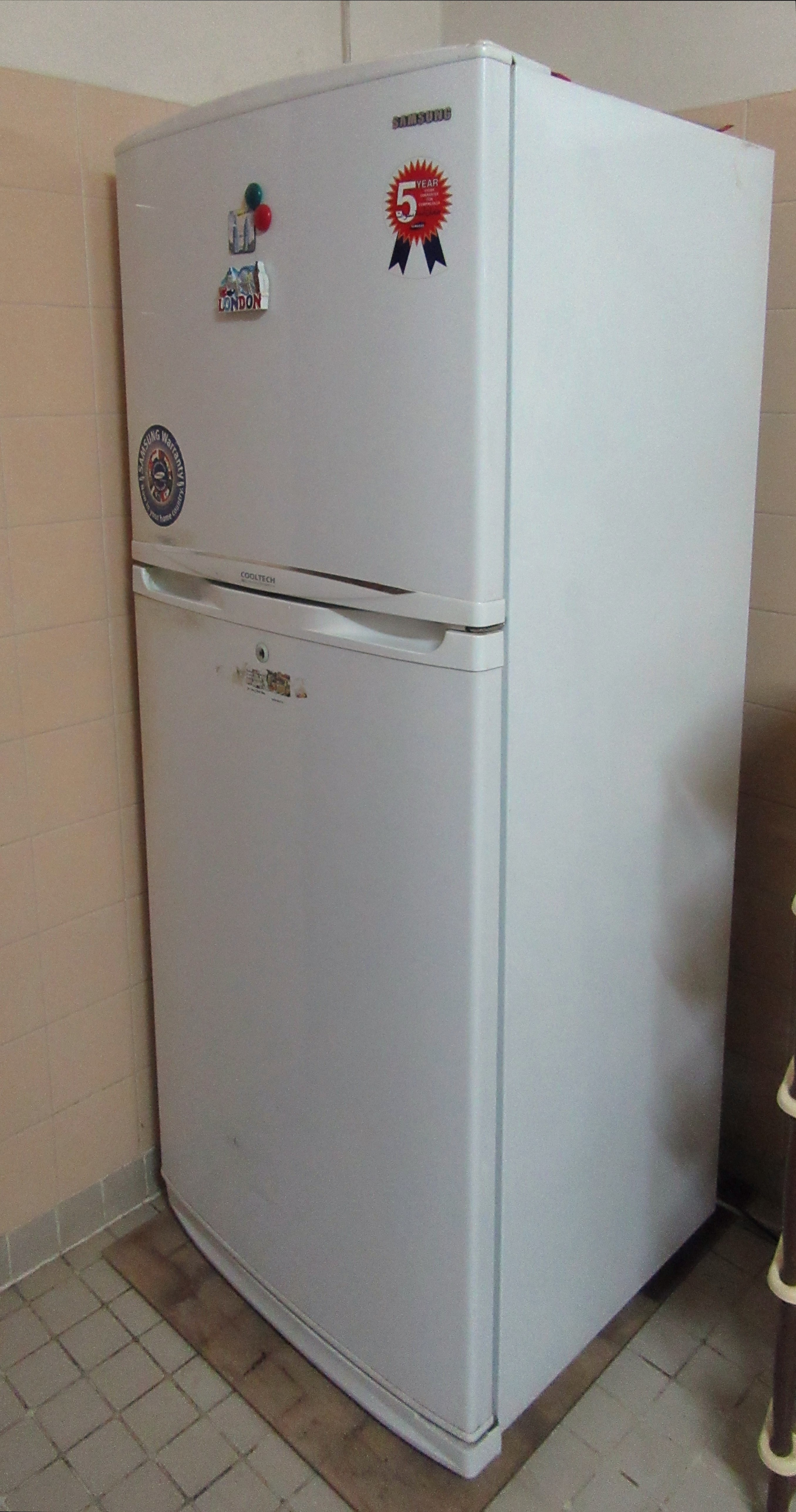 A white Samsung Refrigerator